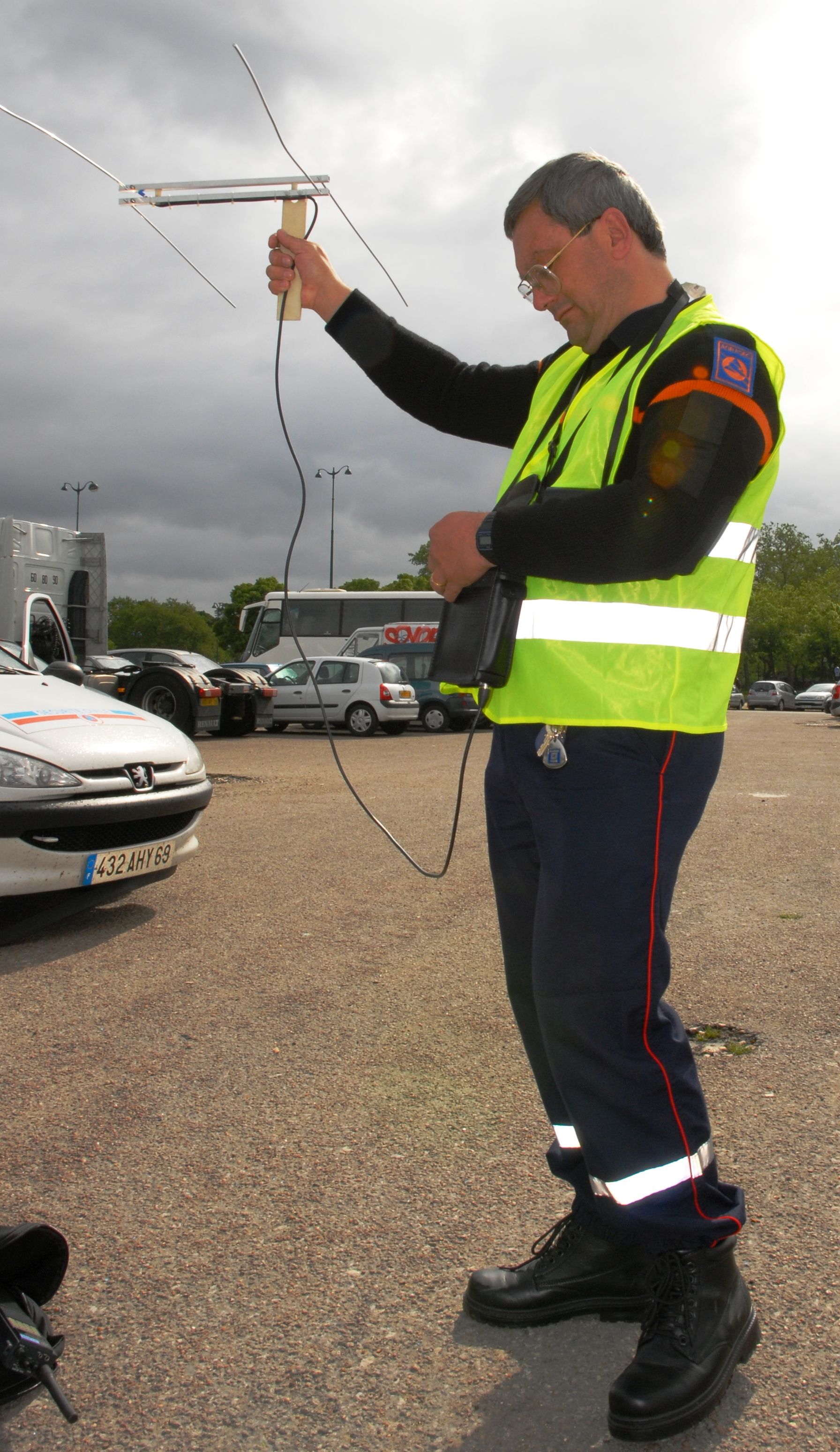 radiogoniometry 121,5 MHz